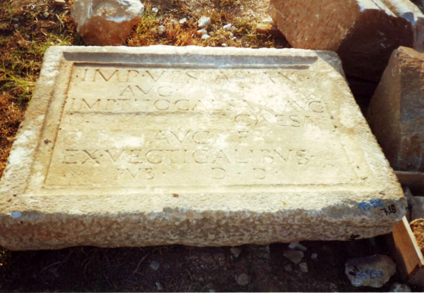 Inscription found in Phillipi, Greece, with the name of emperor Domitian erased after his damnatio memoriae. Reads: IMP∙VESPASIANo AVG∙ P ∙ P IMP ∙TITO ∙CAESARI ∙AVG CAESAri AVG ∙F ∙ EX ∙ VECTIGALIBVS ∙ PVB ∙ D ∙D Translation: To the emperor Vespasian Augustus, father of the country, to Titus Caesar (to Domitian - erased) Caesar, sons of the Augustus out of public expenses from a decree of the decurions.